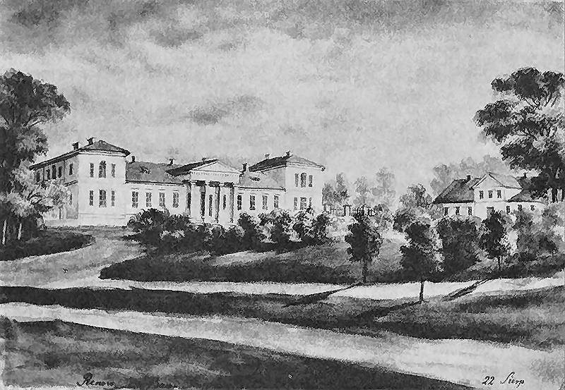 .Renavas manor of Röne family, Lithuania 19th century